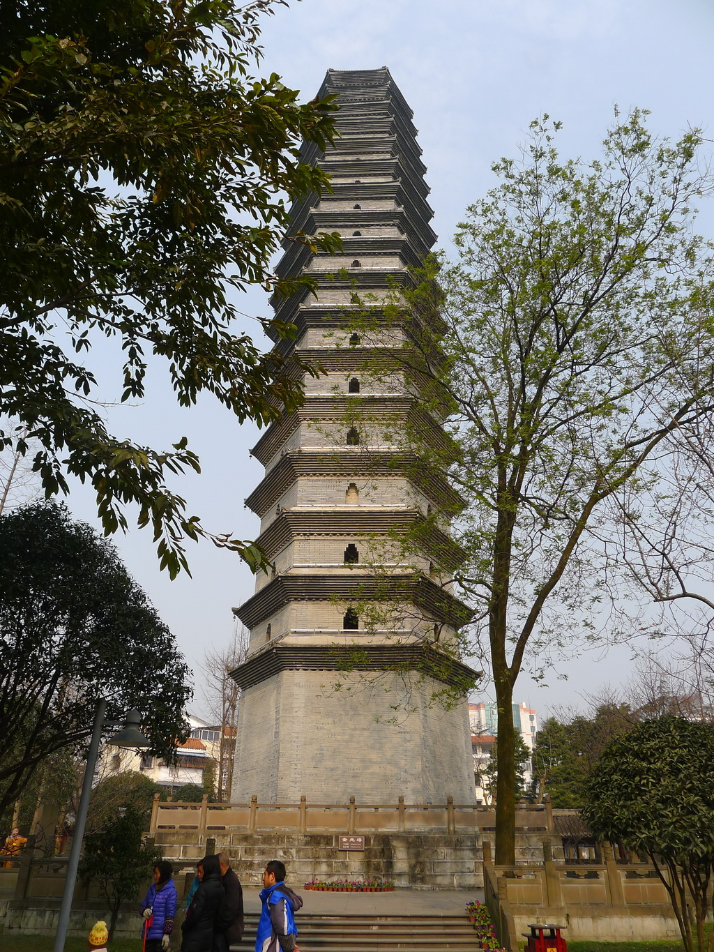 Kuiguang Pagoda, located in Dujiangyan, Chengdu City, Sichuan Province, P.R.C. Listed in China National Key Protected Cultural Heritages.中文（中国大陆）: 奎光塔，位于中国四川省成都市都江堰市，全国重点文物保护单位。